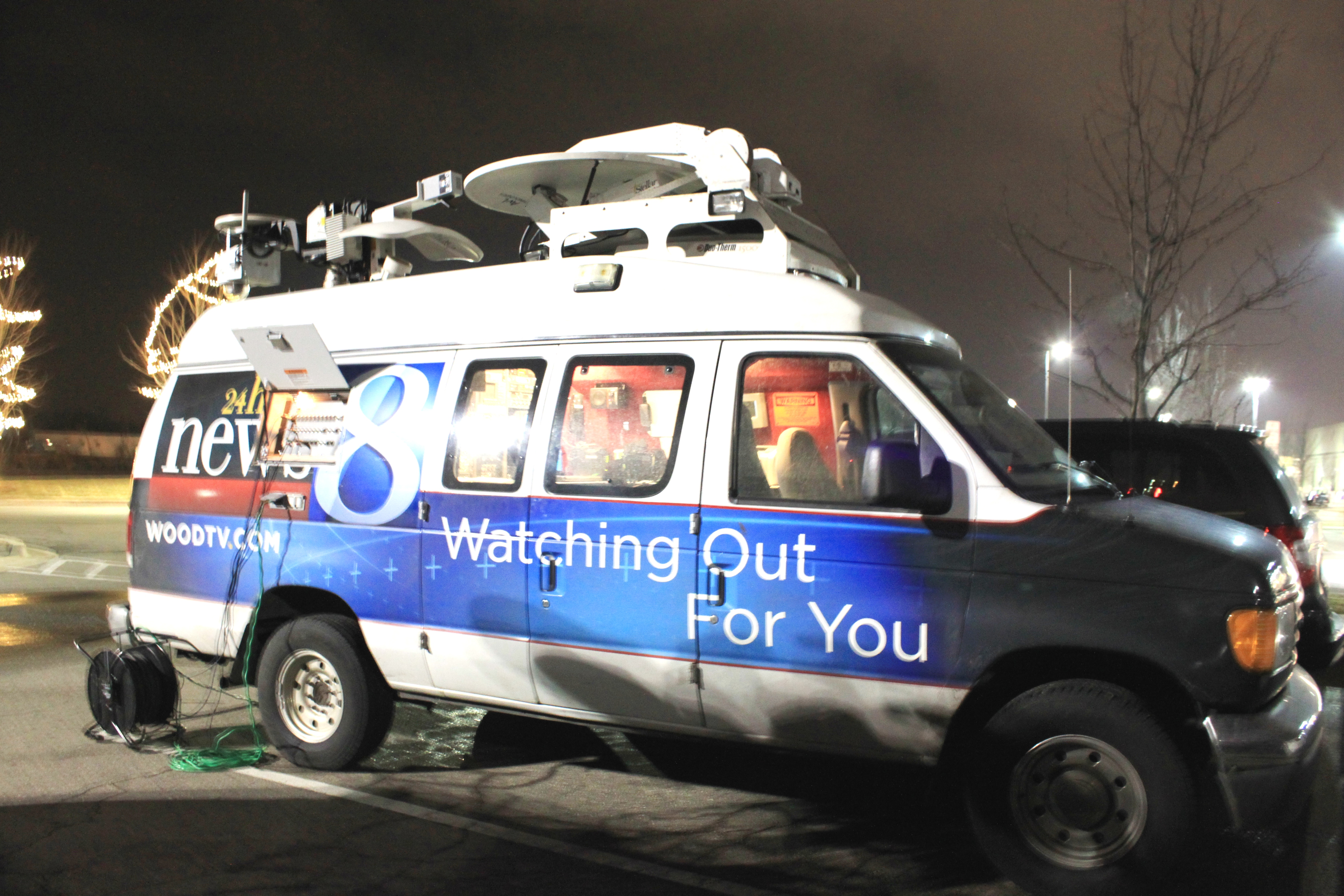 WOOD-TV News remote van, at the Suburban Collection Showplace, 46100 Grand River Avenue, Novi, Michigan, covering the Lincoln Day Dinner which featured Republican presidential candidates Mitt Romney and Rick Santorum as guest speakers.